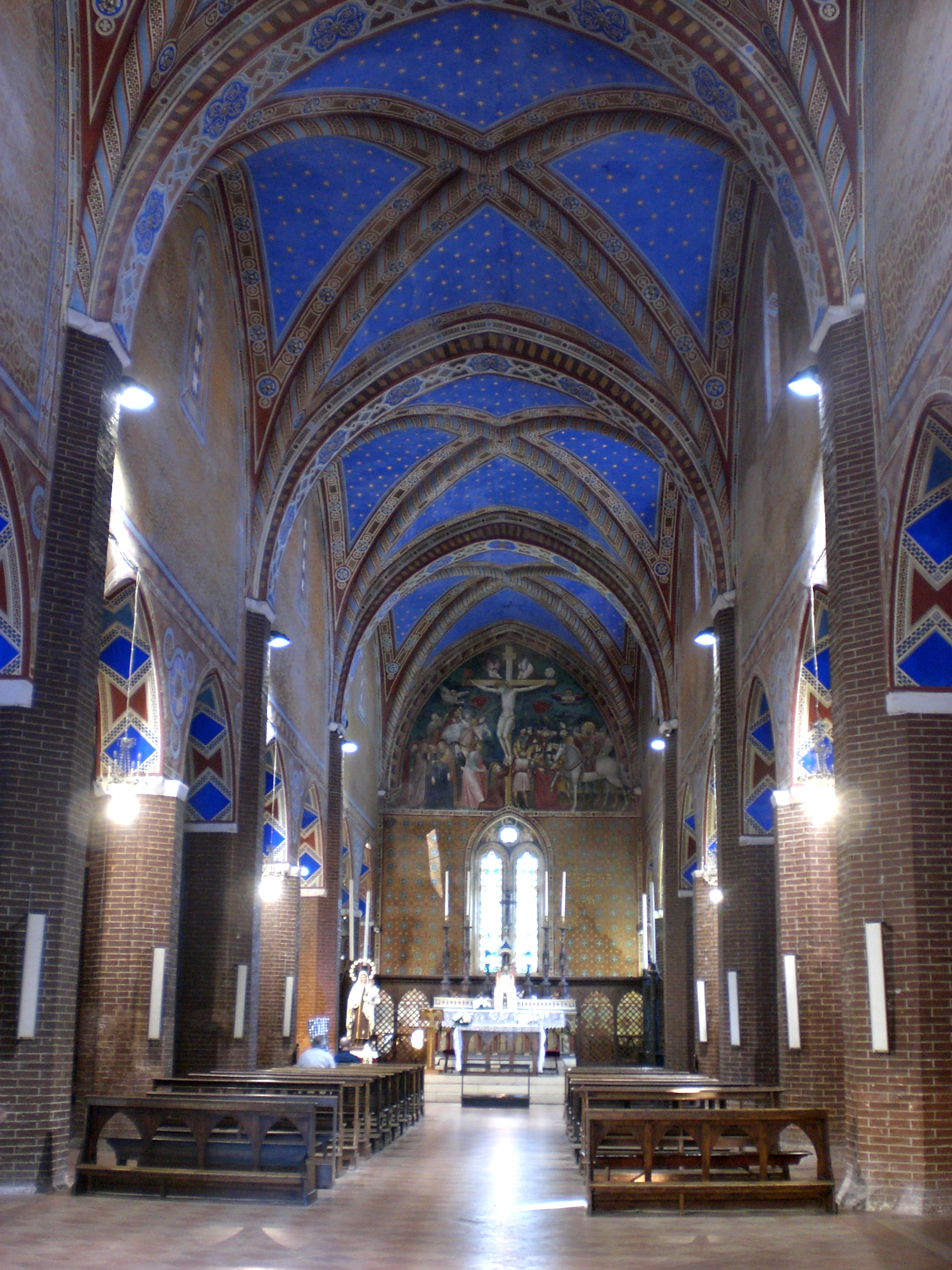 Jesi, St. Mark's Church